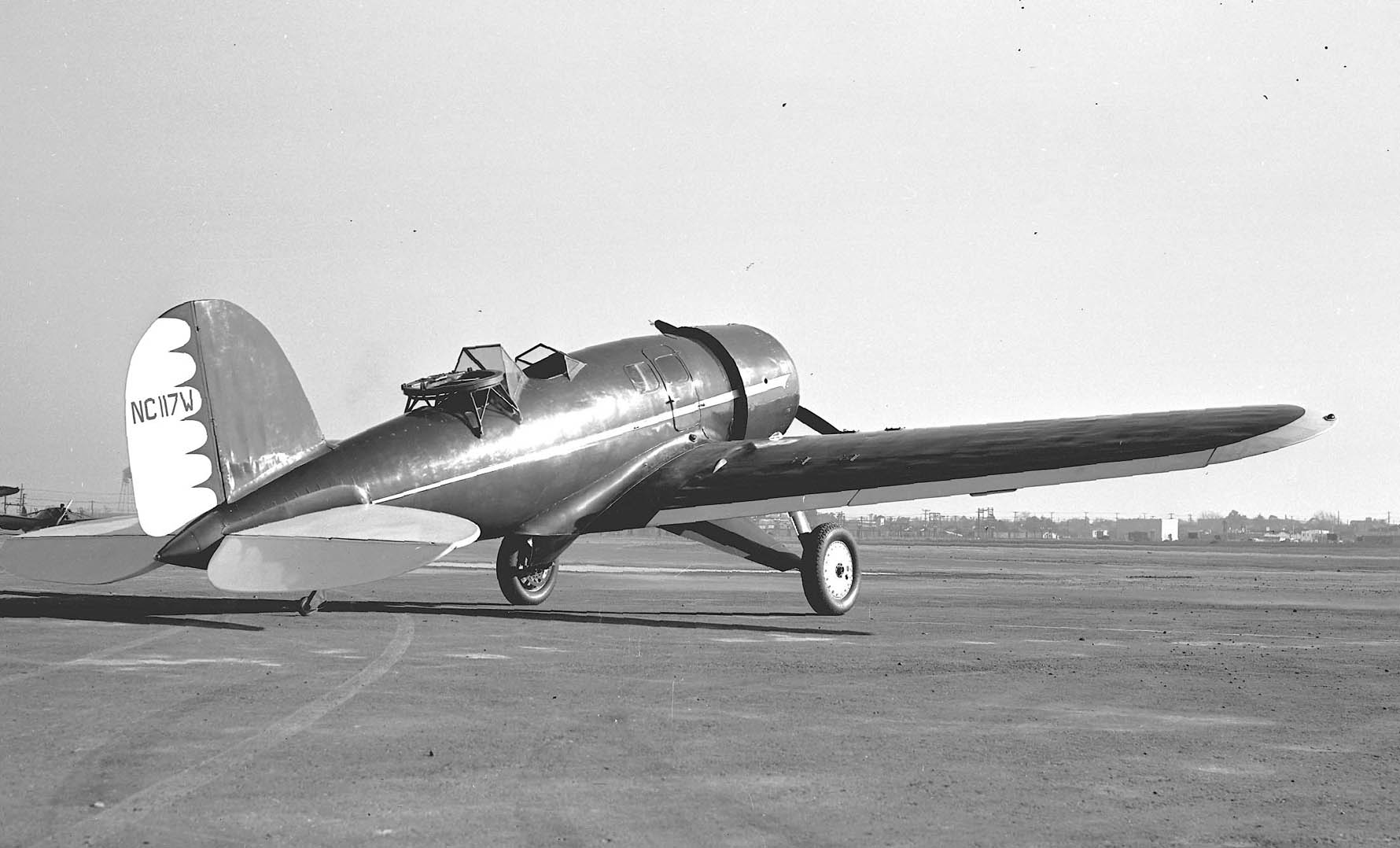 Paul Mantz's Lockheed "Sirius" 8-C at Alameda in 1939.